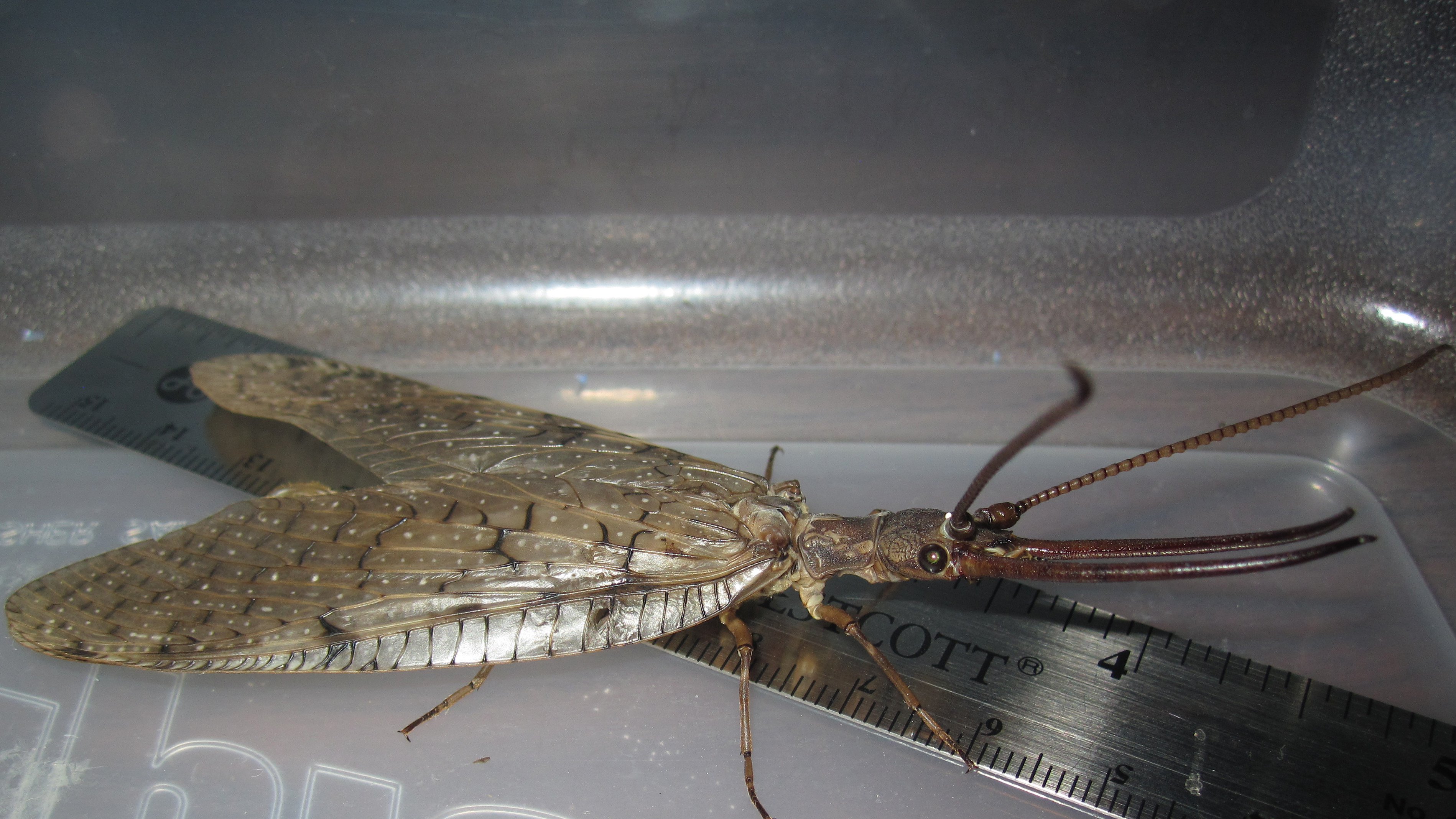 Male Eastern Dobsonfly Found in Ames IA 50010 on 30 Jul 2009. User:Delugeia